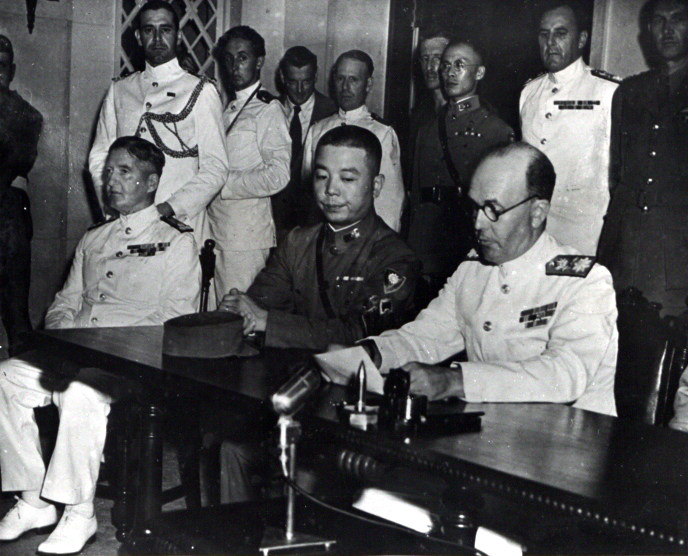 Description: Rear Admiral Harcourt reading the terms of surrender to the Japanese representatives. With him are Admiral Sir Bruce Fraser G.C.B., K.B.E. C. in C. British Pacific Fleet (left) and Major General Pan Hwa Kuei (China). 30590. Location: Hong Kong Date: 1945 Our Catalogue Reference: Part of CO 1069/456. This image is part of the Colonial Office photographic collection held at The National Archives. Feel free to share it within the spirit of the Commons. Please use the comments section below the pictures to share any information you have about the people, places or events shown. We have attempted to provide place information for the images automatically but our software may not have found the correct location. For high quality reproductions of any item from our collection please contact our image library